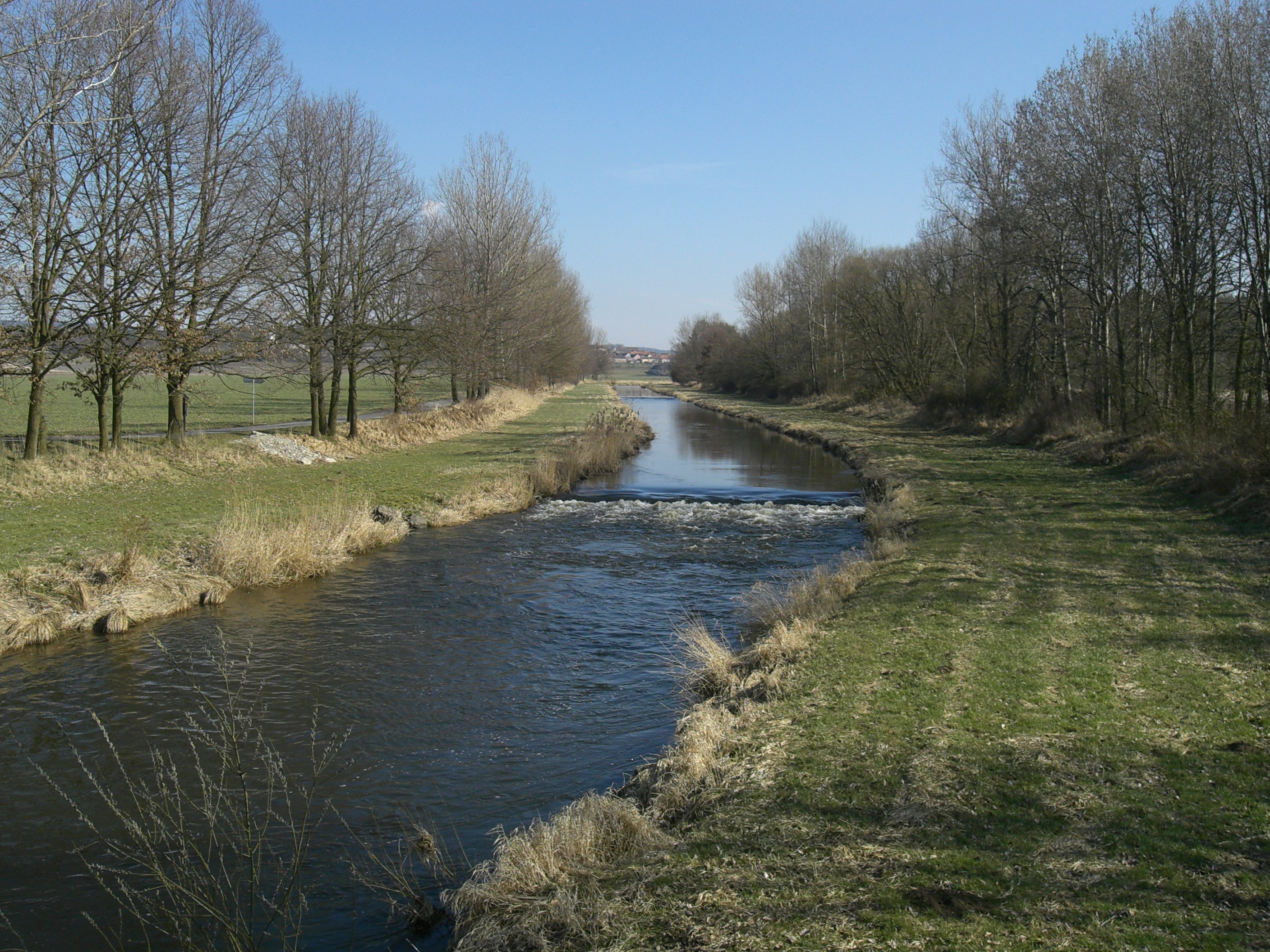 Blanice river near Klokočín, Czech Republic.